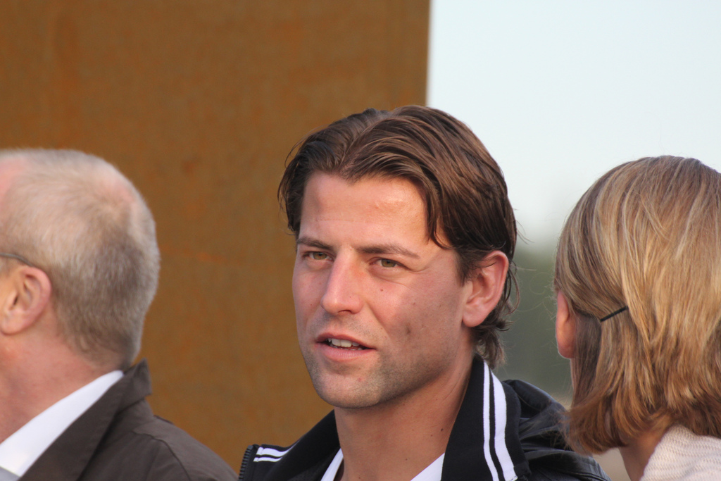 photo of weidenfeller